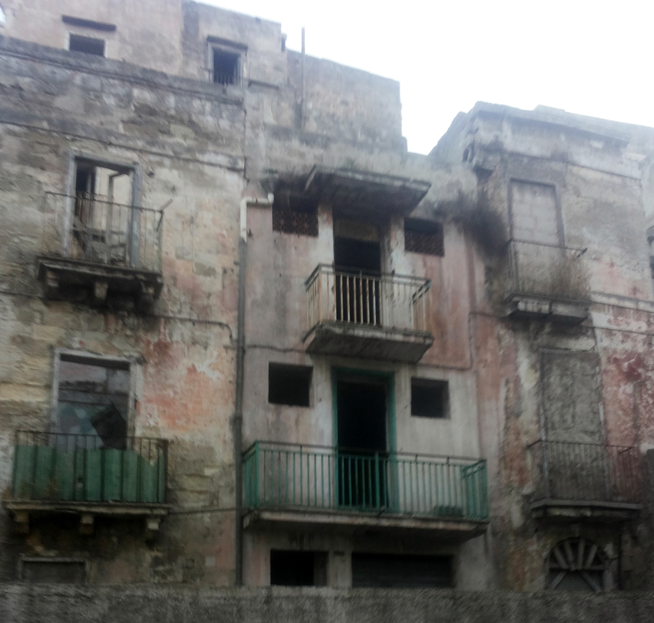 Decrepit buildings in Taranto Old Town in Via di Mezzo